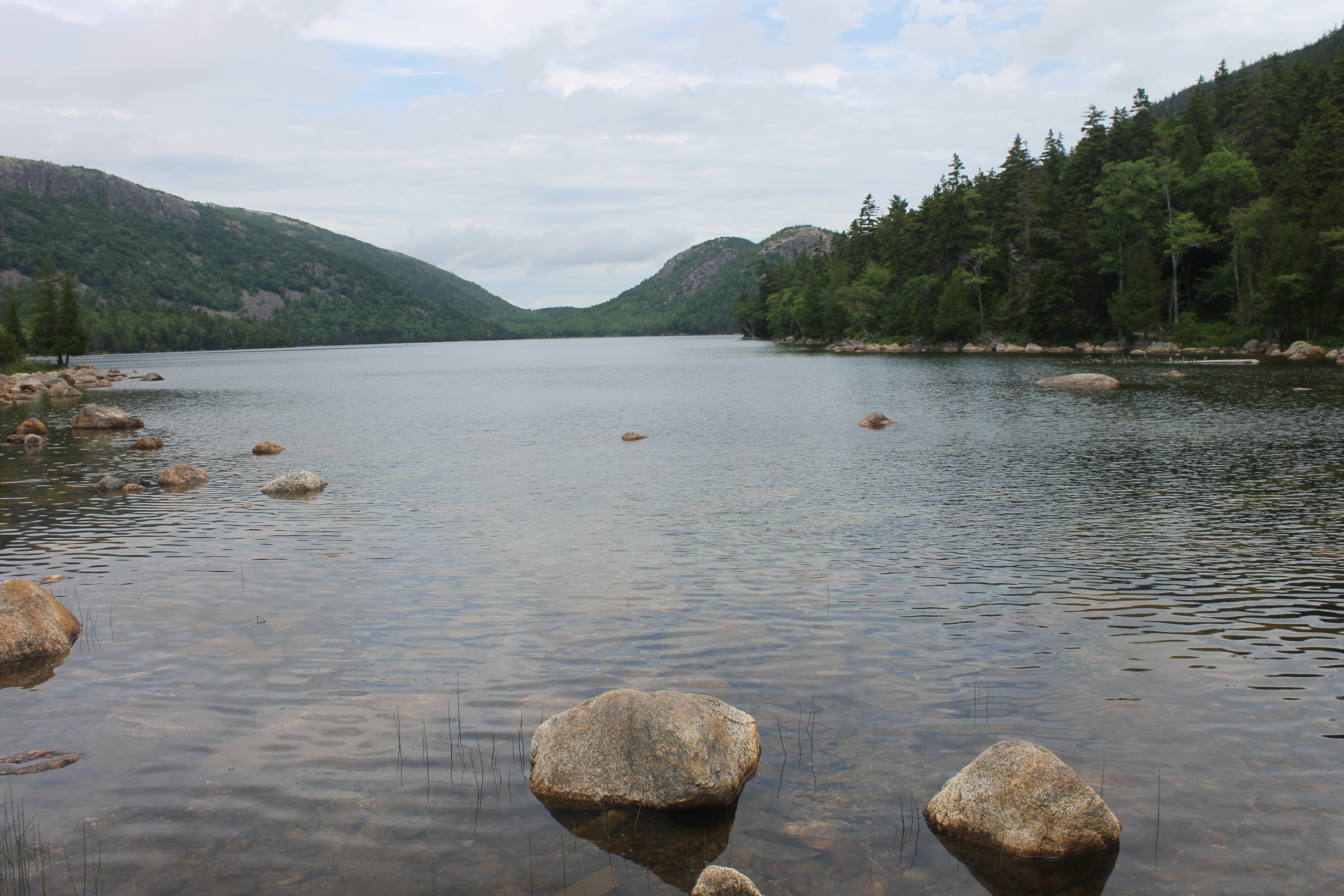 I took photo with Canon camera of Jordan Pond in Acadia National Park.